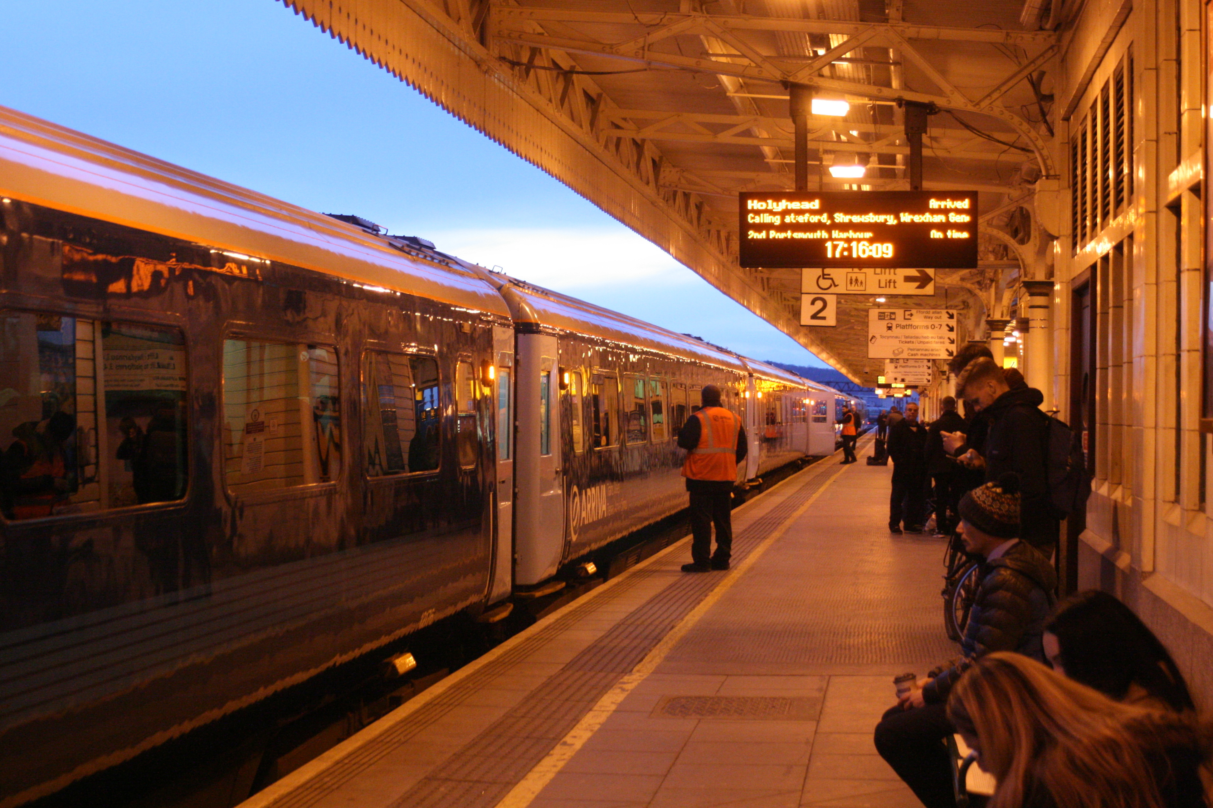 Cardiff Central